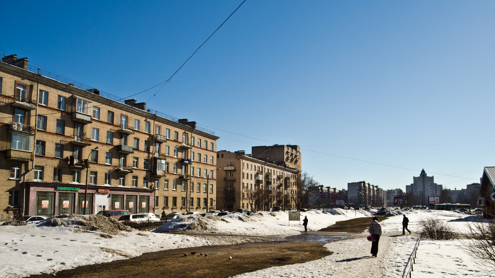 Varshavskaya street, Saint Petersburg, 2011